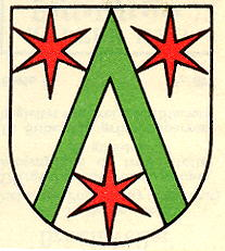 Coat of arms of the municipality of Beurnevesin in Switzerland